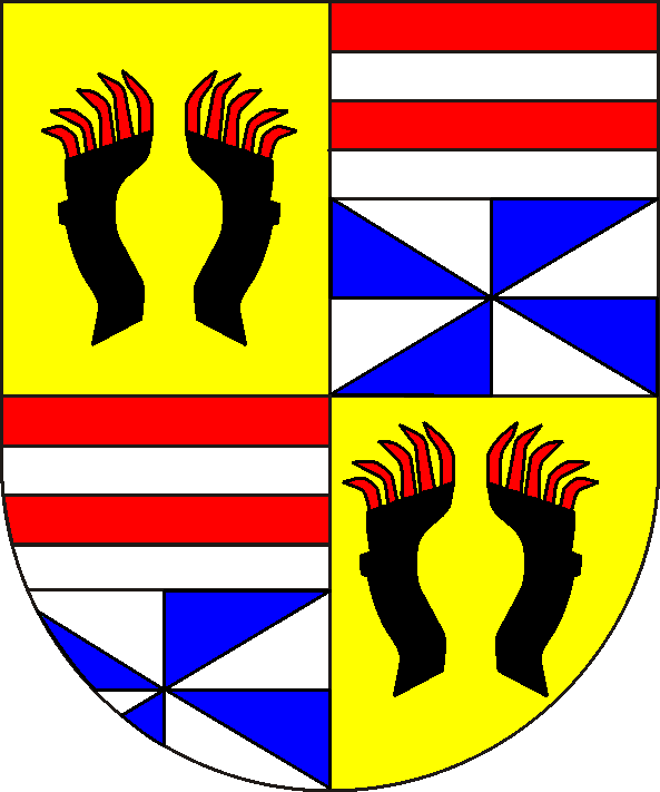 coat of arms